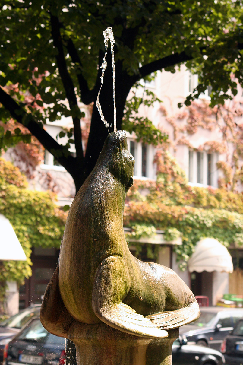 Seehundbrunnen (Common Seal Fountain) in Munich, Bavaria, Municipal Destrict Schwabing-West - Detail